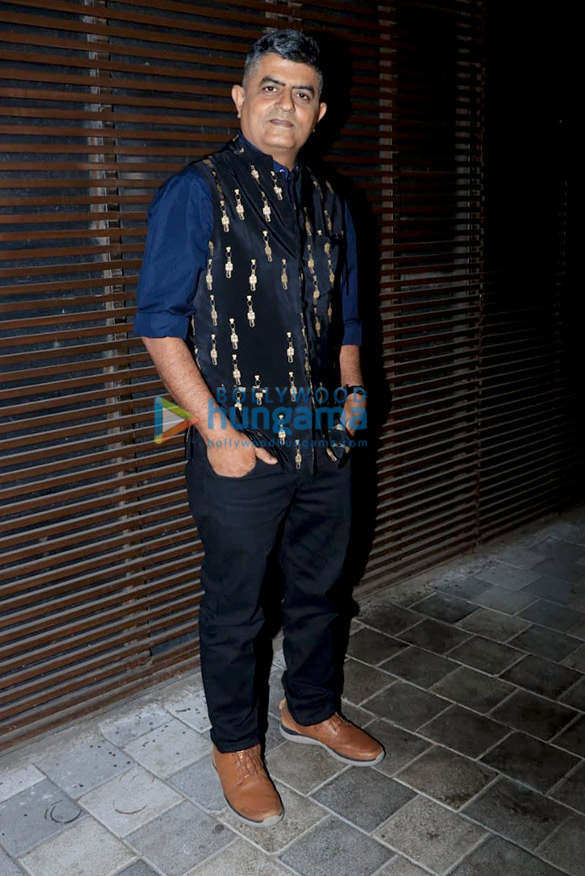 Gajraj Rao at success party of the film ‘Badhaai Ho’ at Estella in Juhu